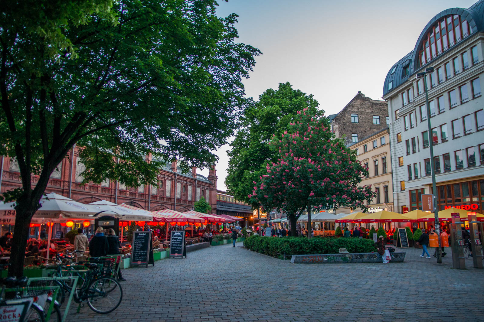 The Hackescher Markt in Berlin at dusk